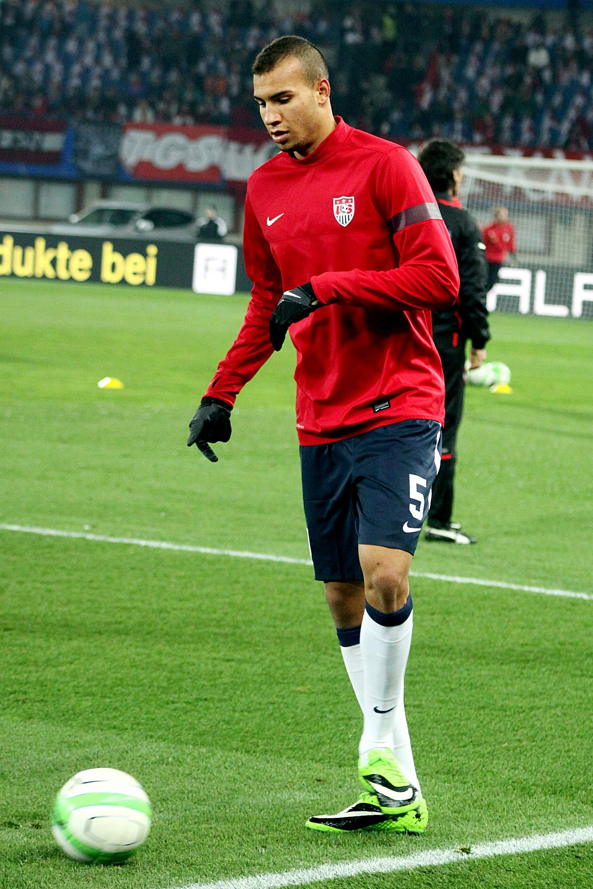 Friendly-match Austria vs. USA (1:0) in the Ernst-Happel-Stadion in Vienna at 2013-03-22. – The photo shows John Anthony Brooks (USA).